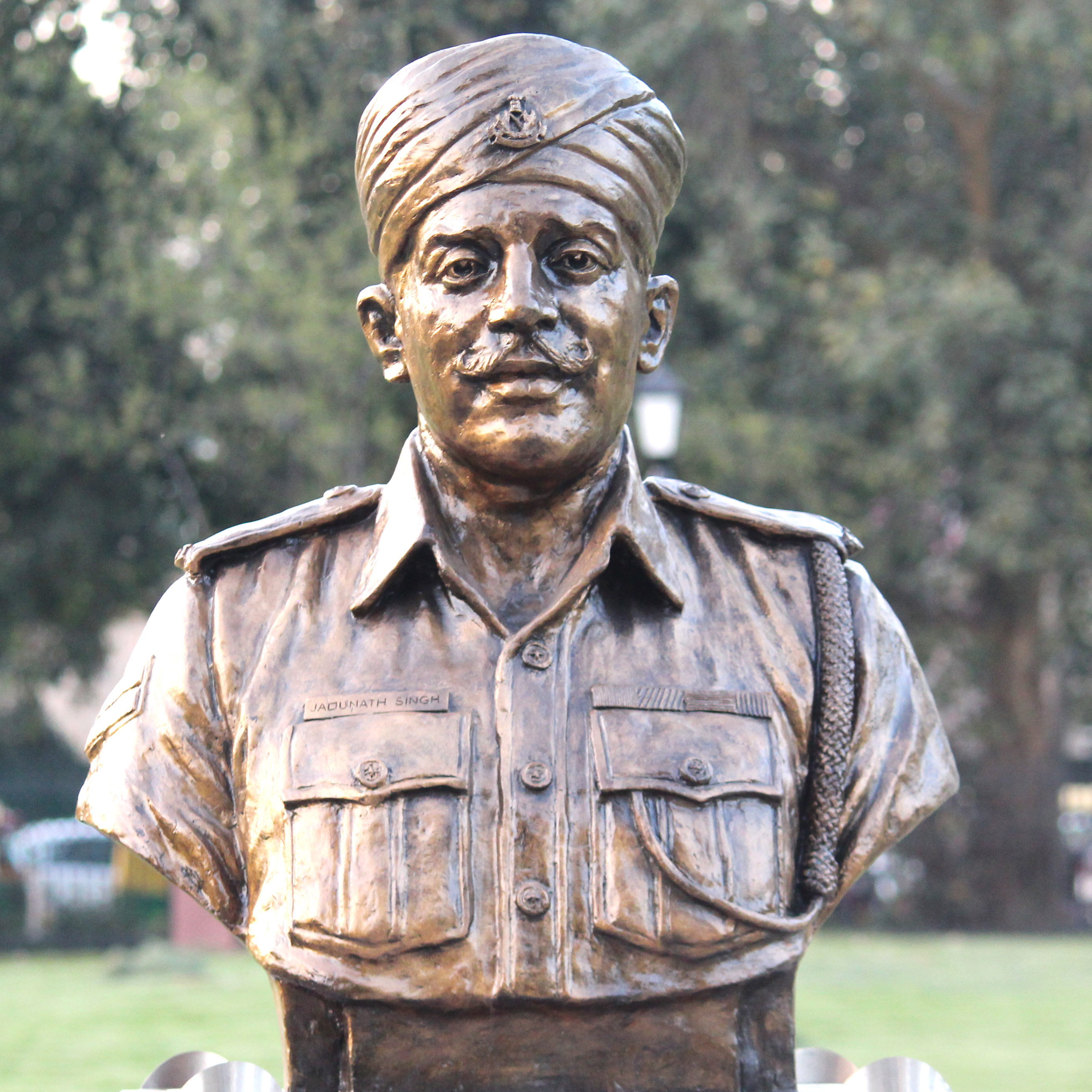 Naik Jadunath Singh's statue at Param Yodha Sthal (section for Param Vir Chakra recipients), National War Memorial, New Delhi.